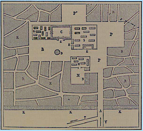 Letter codes, from Burton: Mission to Glélé (book). A: Bridge and town gate from Kana. B: Main square. C: Courtyard of king's palace with rooms for official reception. D: Sacrificial hut. E: Gates to king's palace. G: Huts of Amazons. K: Ditch and wall around the town. P: Squares where markets were held. R: Maze of small streets between compound walls. S: Wives' huts. T: Road to prince's house. V: Road from Kana to Abomey